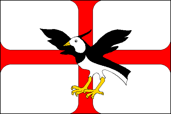 Municipal flag of Čejkovice village, Hodonín District, Czech Republic.